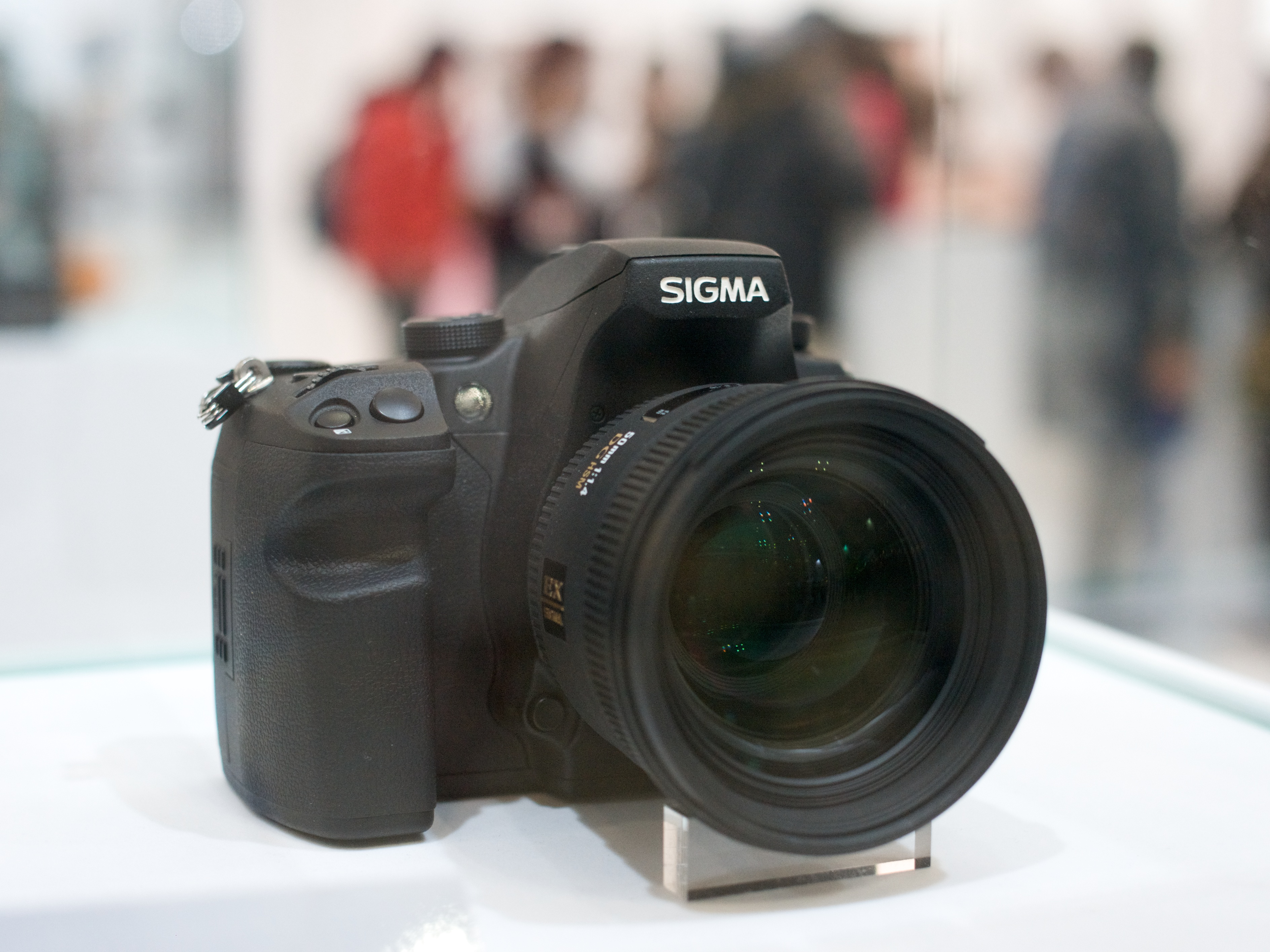 Sigma SD1 at CP+ Camera & Photo Imaging Show 2011, Yokohama.